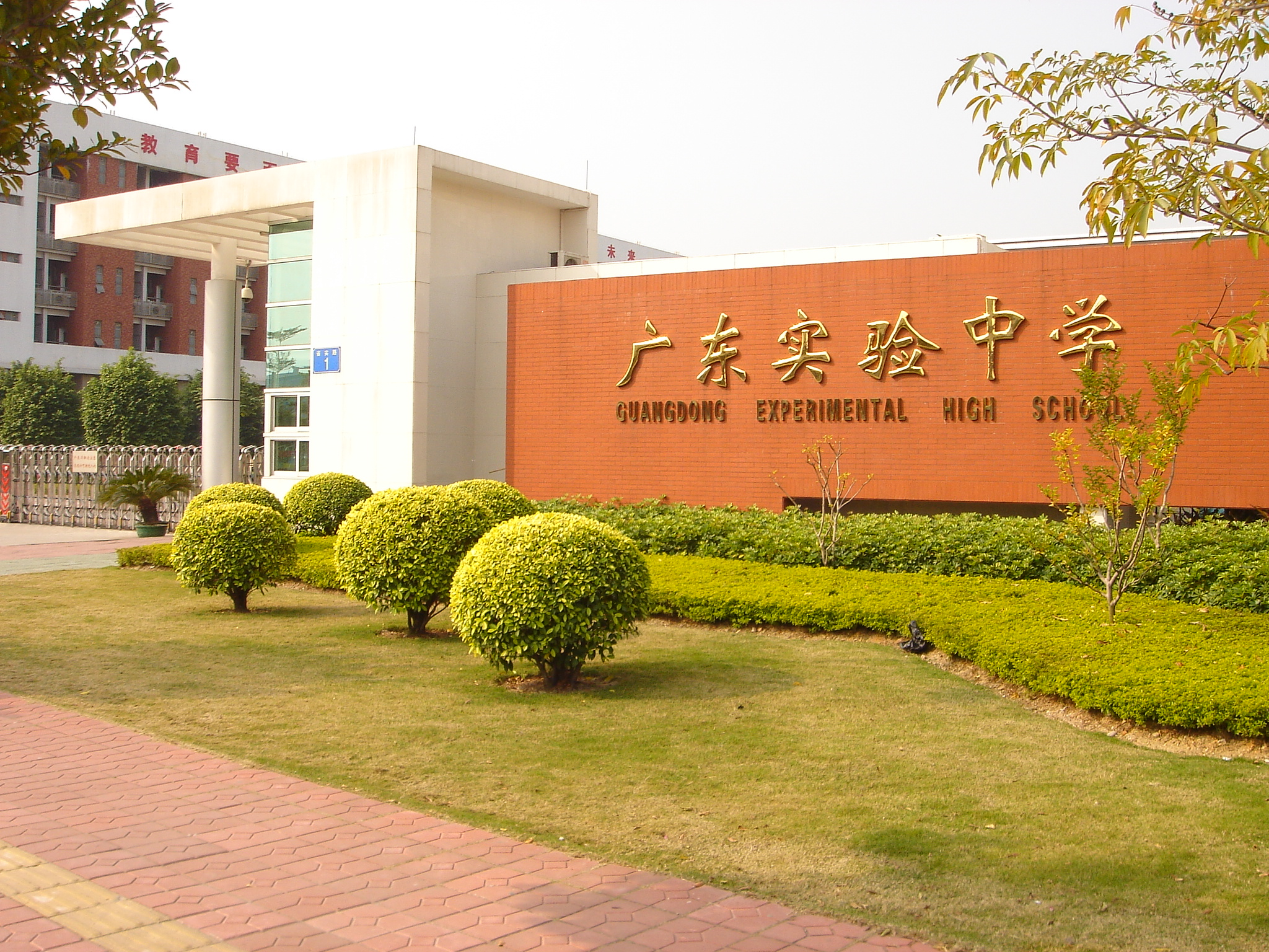 The front gate of Guangdong Experimental High School